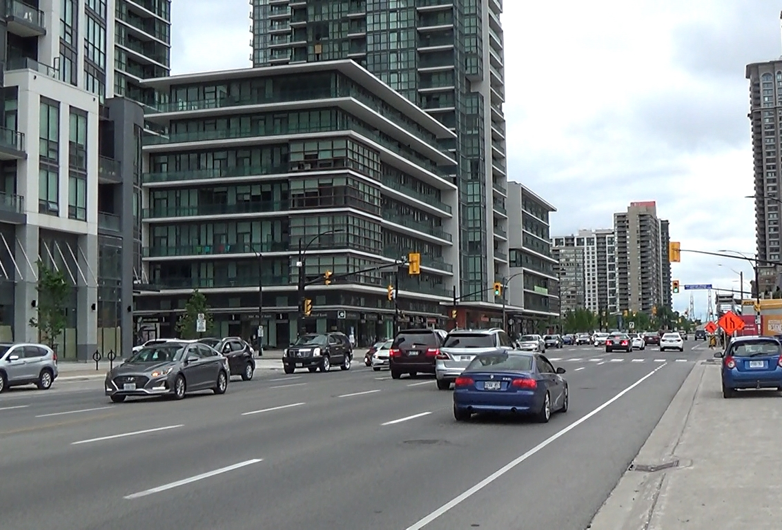 Developing highrise canyon along Confederation Parkway in Mississauga City Centre